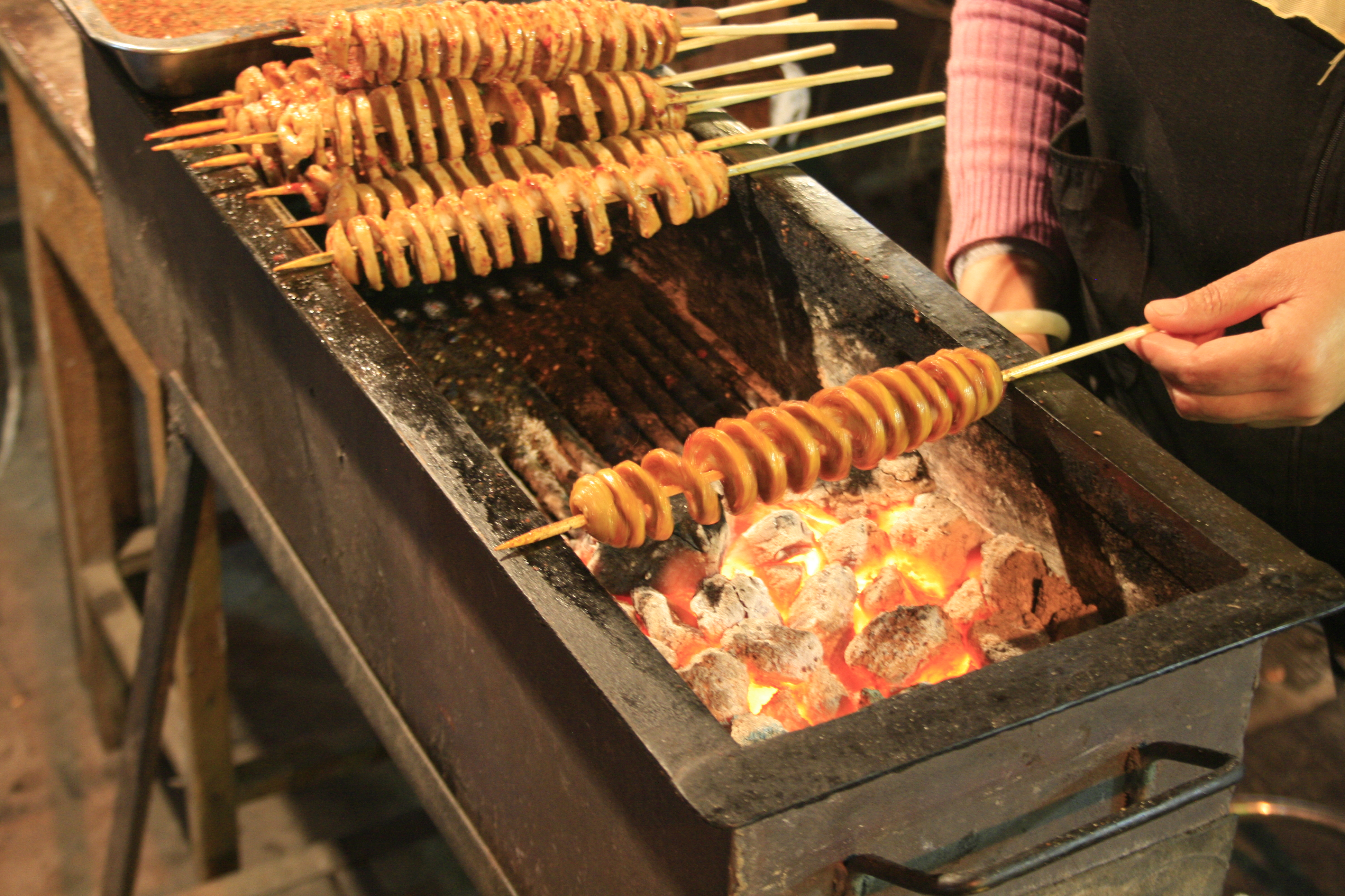 kaomianjin, a barbecued noodle from China